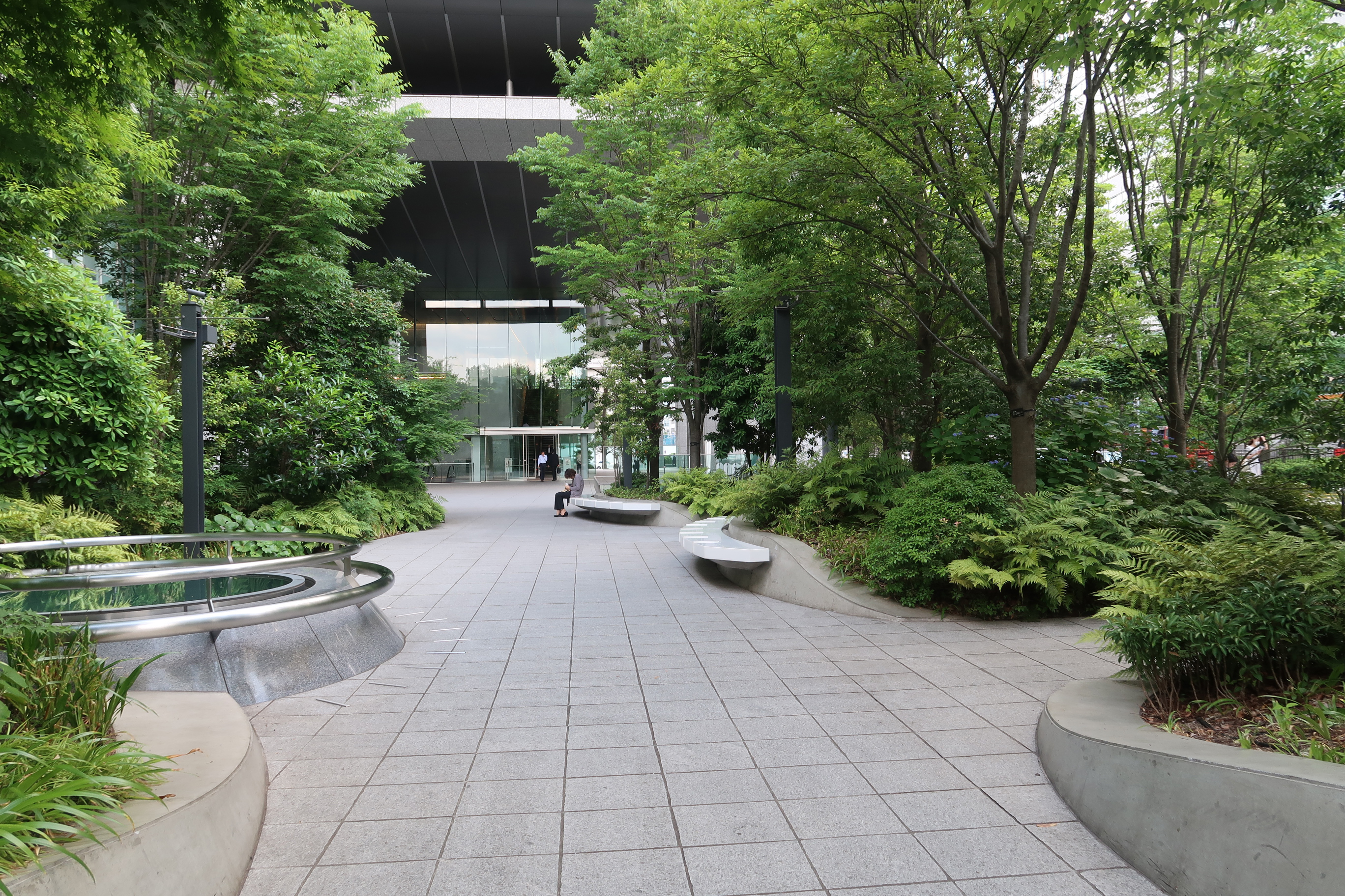 Lino Building Open space